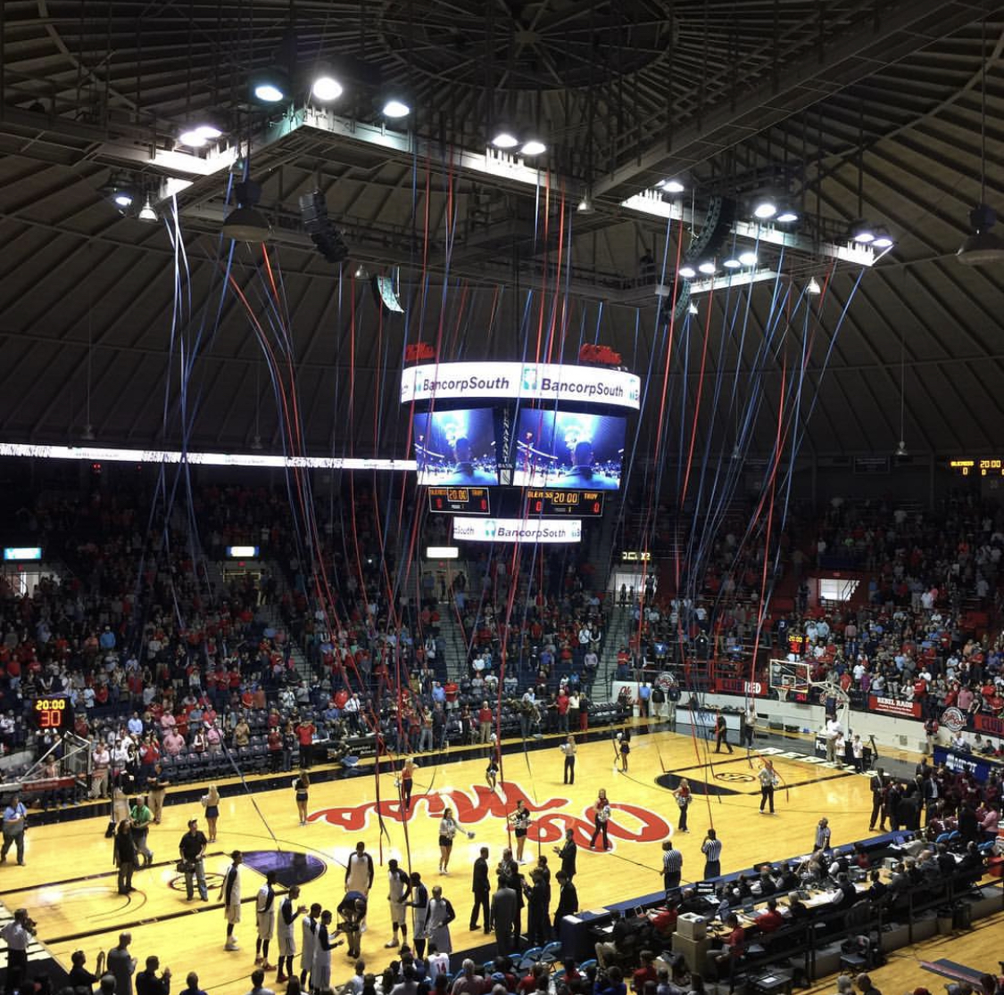 Last game